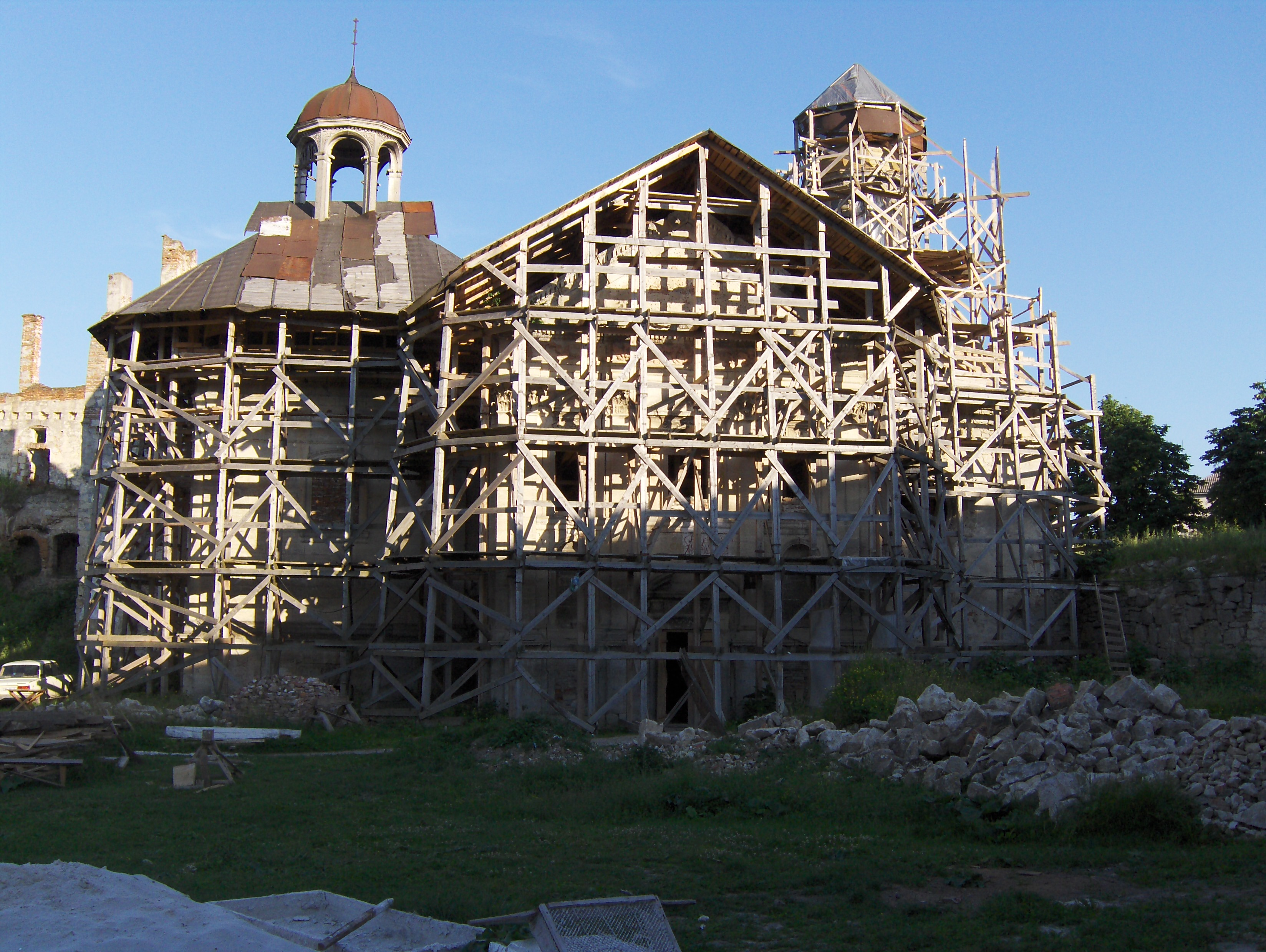 Church at Berezhany castle, Berezhany, Ternopil region, western Ukraine.